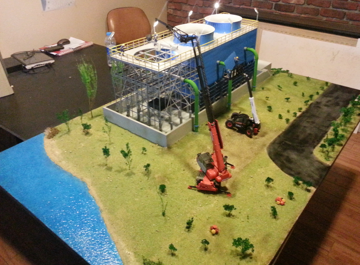 Cooling tower construction diaroma